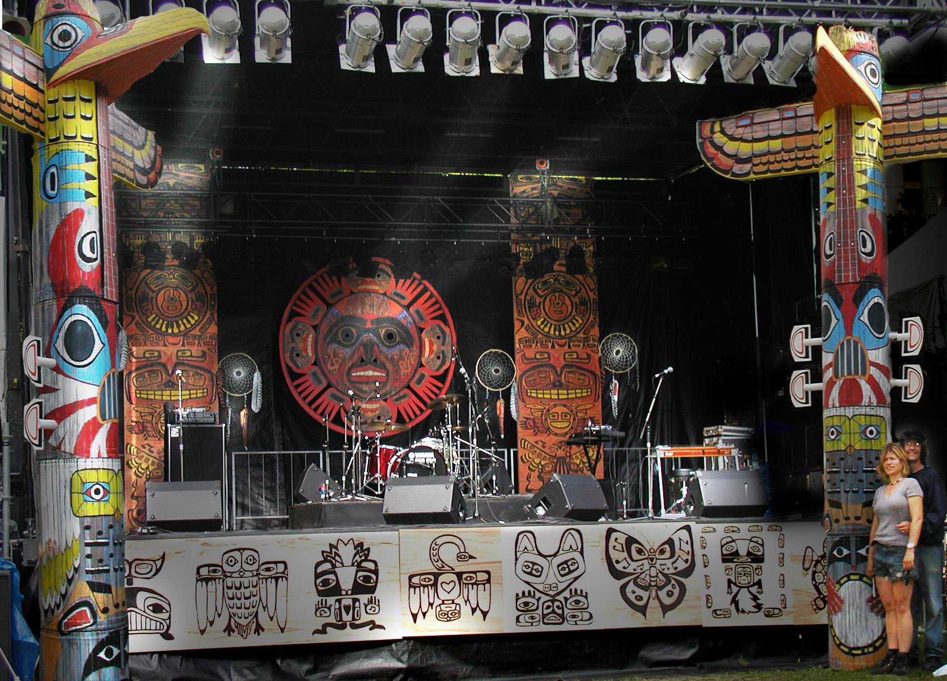 Miguel Cerejido's stage set design for the Black Sheep Stage. Ottawa Bluesfest 2004